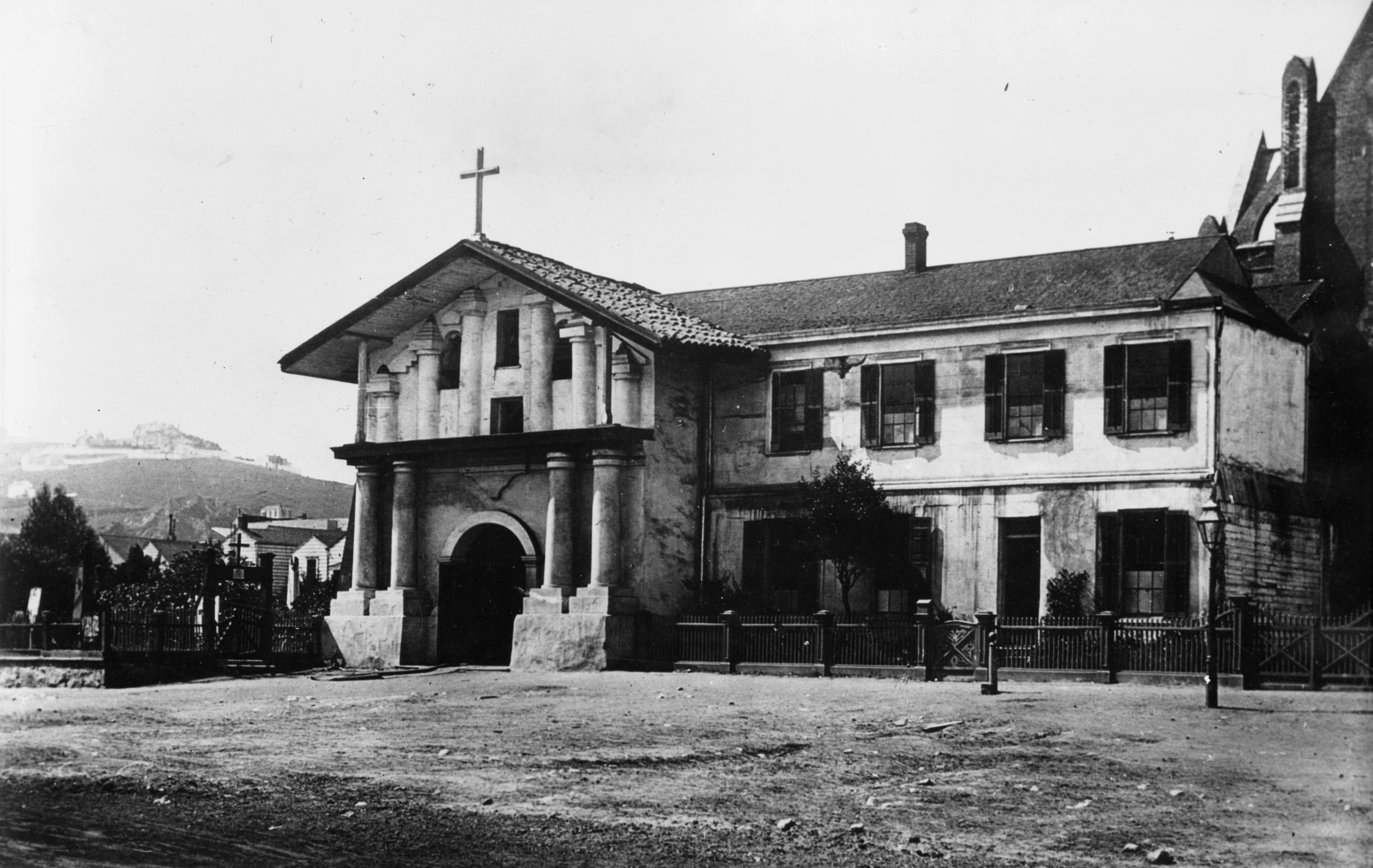 A view of Mission San Francisco de Asis (Mission Dolores) on Dolores Street in San Francisco, California — between 1880 and 1902. The adobe/stone building has an arched entryway, pilaster columns, a cross, and tile roof.